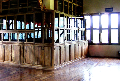 Wat Khung Taphao, Ban Khung Taphao, Khung Taphao subdistrict, Mueang Uttaradit, Uttaradit Province, Thailand.) on December 2, 2008.